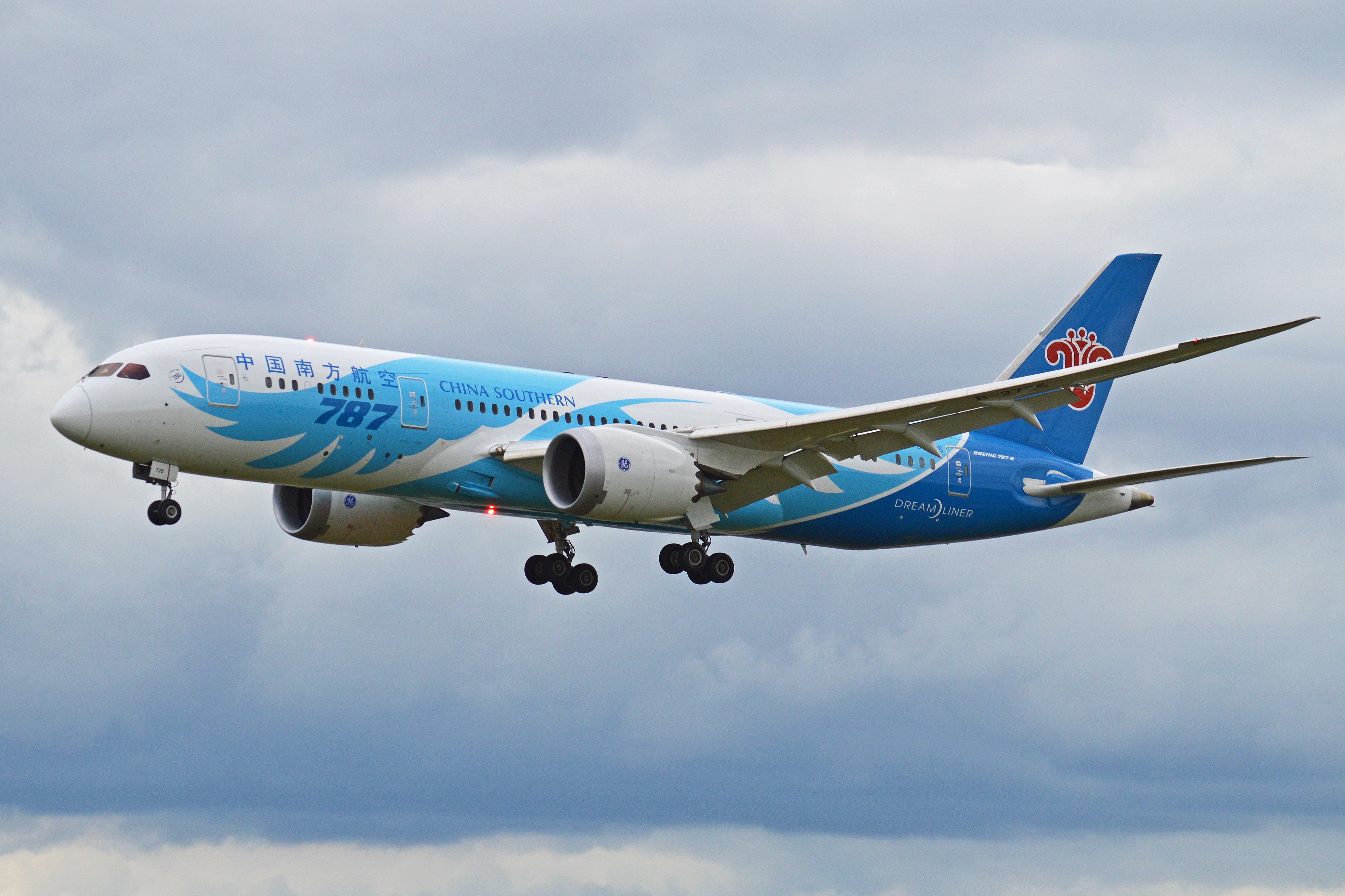 Arriving on flight CSN303 from Guangzhou. c/n 34923, l/n 34. London Heathrow. 5-10-2013